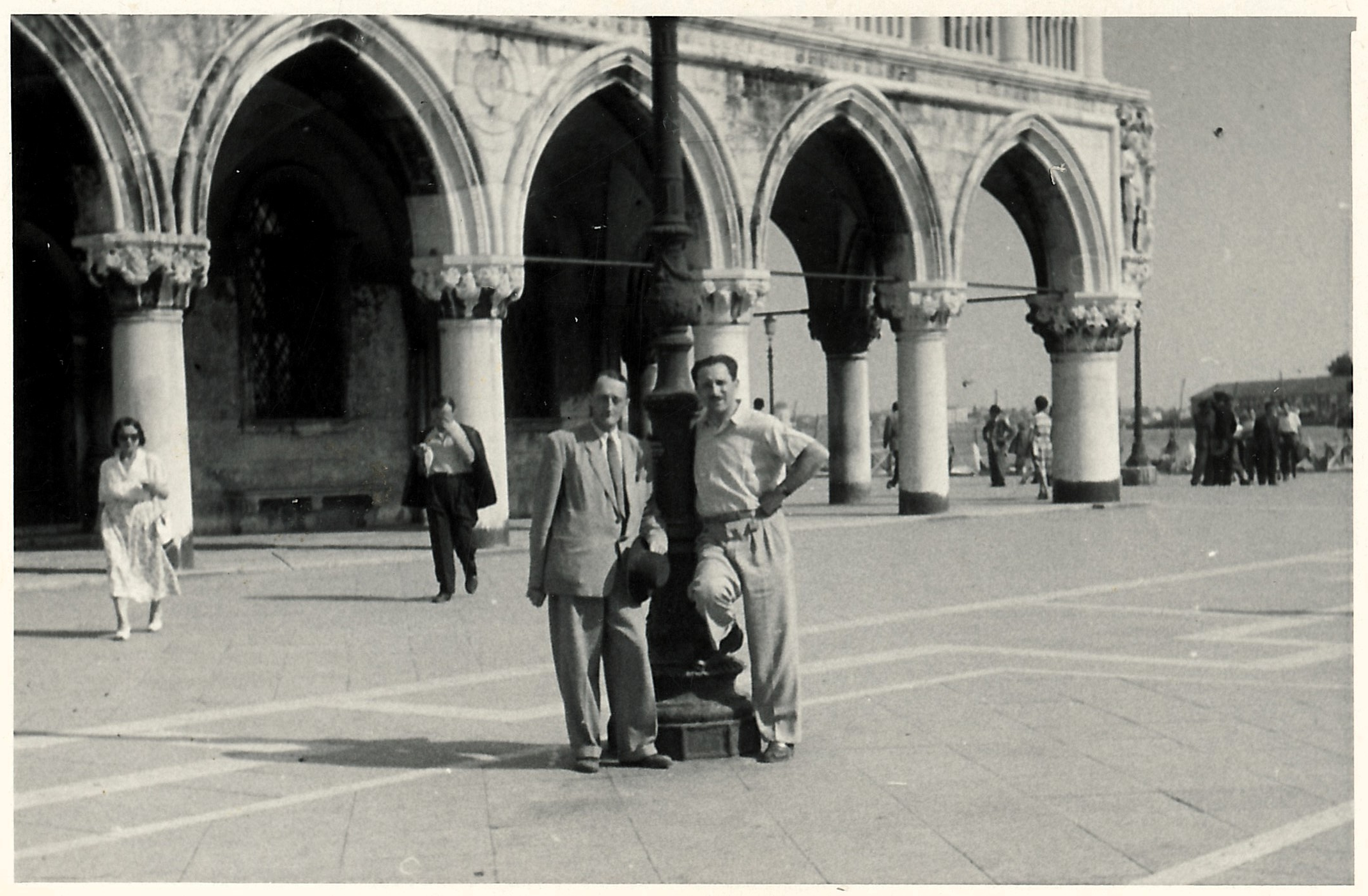 It's my own faithful copy of the next photograph: "Maciej Maslowski and Polish consul Stefan Plonski, Piazza San Marco Venice, August 1948"